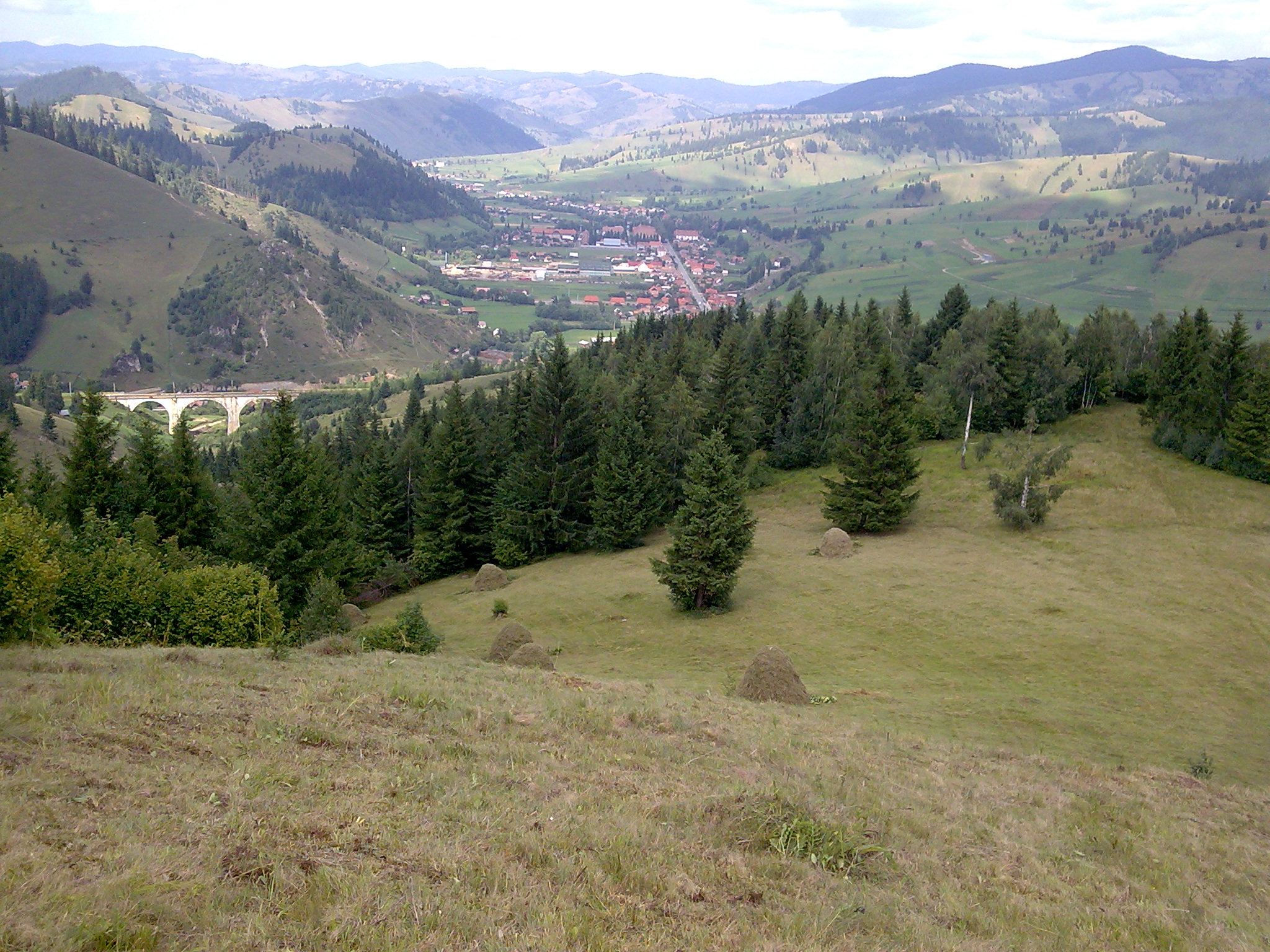 Gyimes-Valley (Valea Gyimesului, Gyimes-völgy) from the peak called 'Hegyes Bitkó'